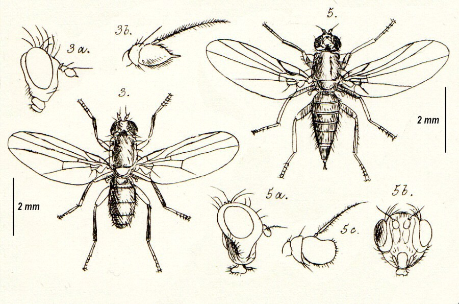 Francis Walker [1853] Insecta Britannica Diptera Part of plate XVII Figure 3 Cerodontha denticornis 3a head lateral. 3b antennna and figure 5 Phytomyza affinis 5a head lateral. 5b face 5c antenna